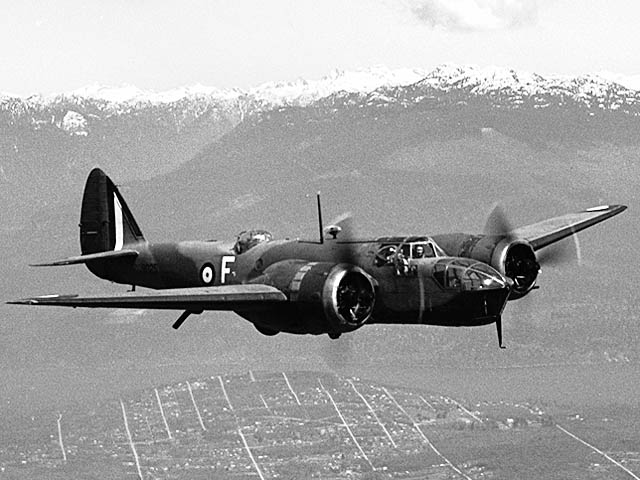 Bristol Type 142M Bolingbroke (Blenheim).